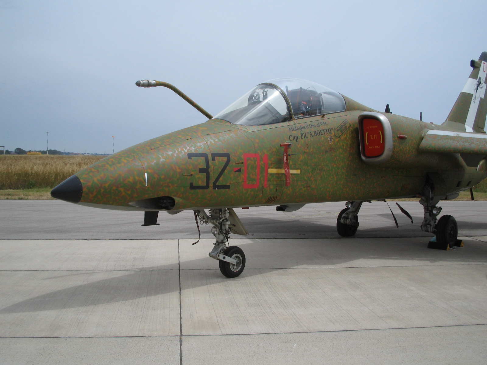 Aeronautica Militare Alenia AMX